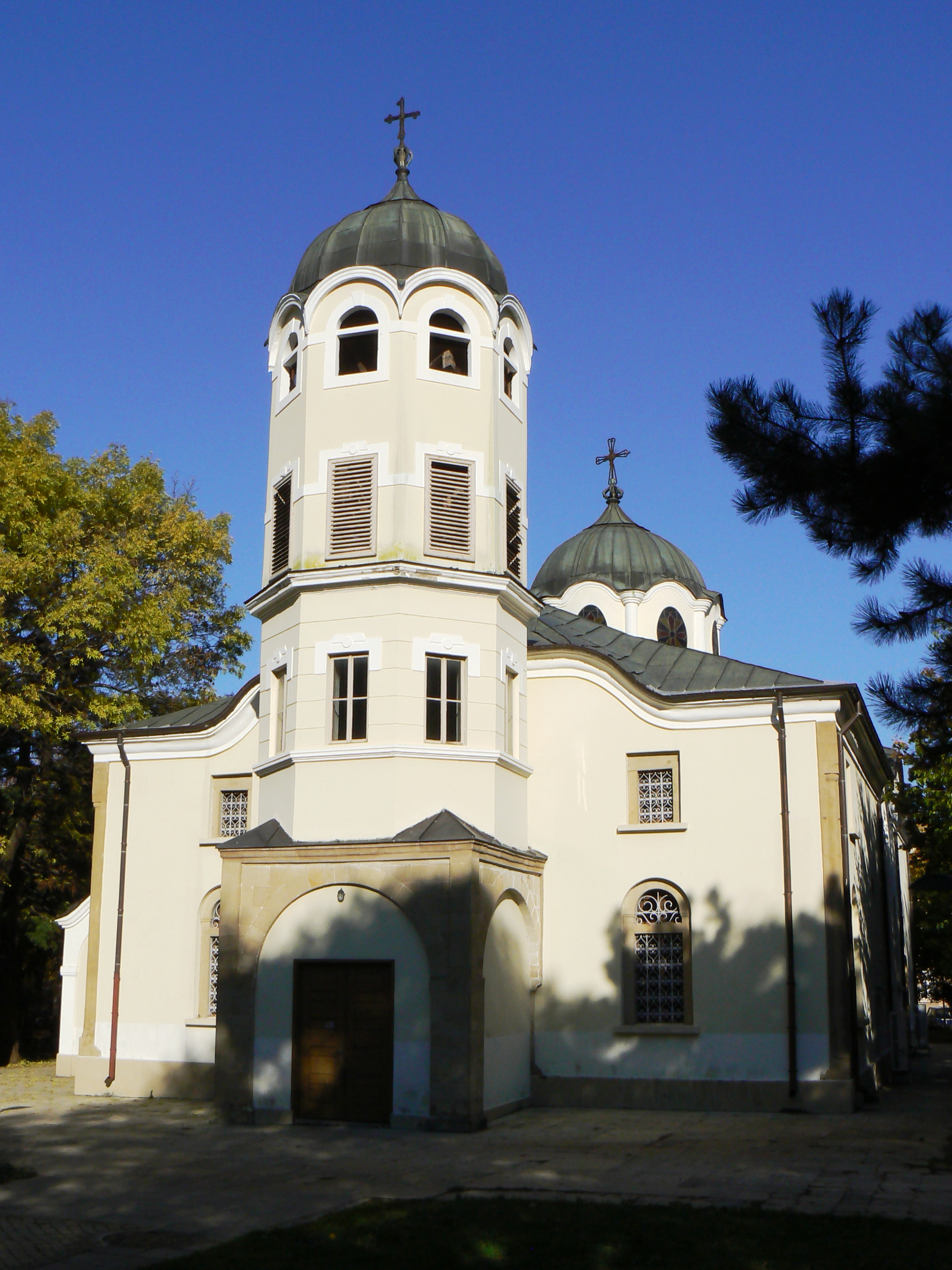 Church "Saint Nikolay" in Vratsa, Bulgaria